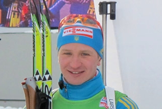 Serhiy Semenov on Biathlon World Cup mixed team podium in 2010, Pokljuka